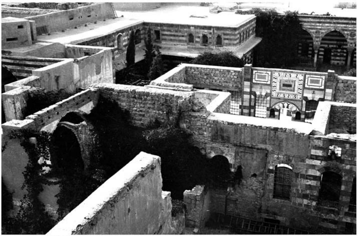 substantial damage sufered during seige, the interior of teh qa'a is visible on the right hand side